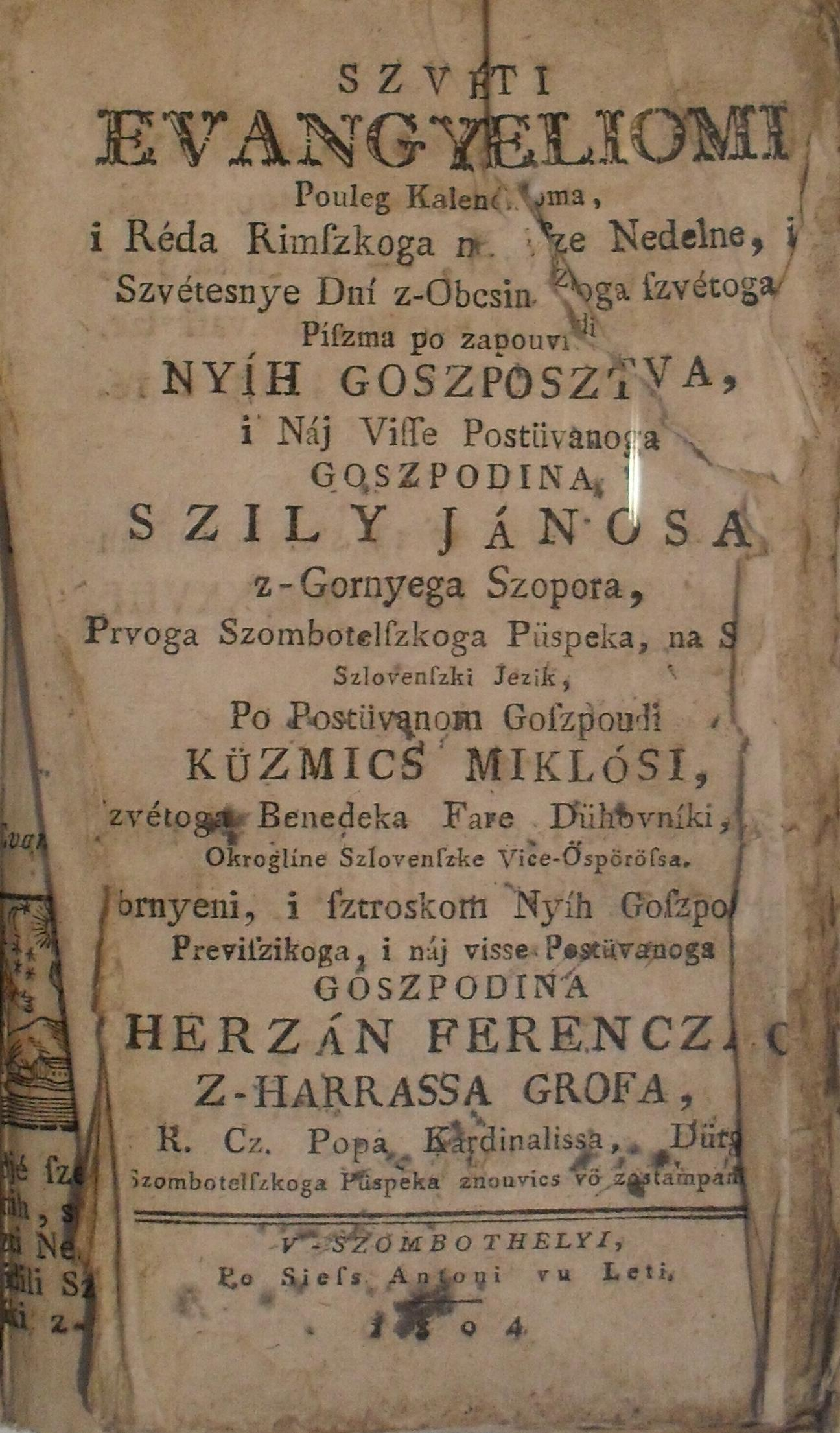 The Szvéti evangyeliomi (Holy gospels) of Miklós Küzmics in prekmurian language (1804 edition)